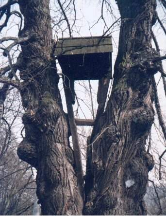 bell on tree, Boztesice, Czech Republic